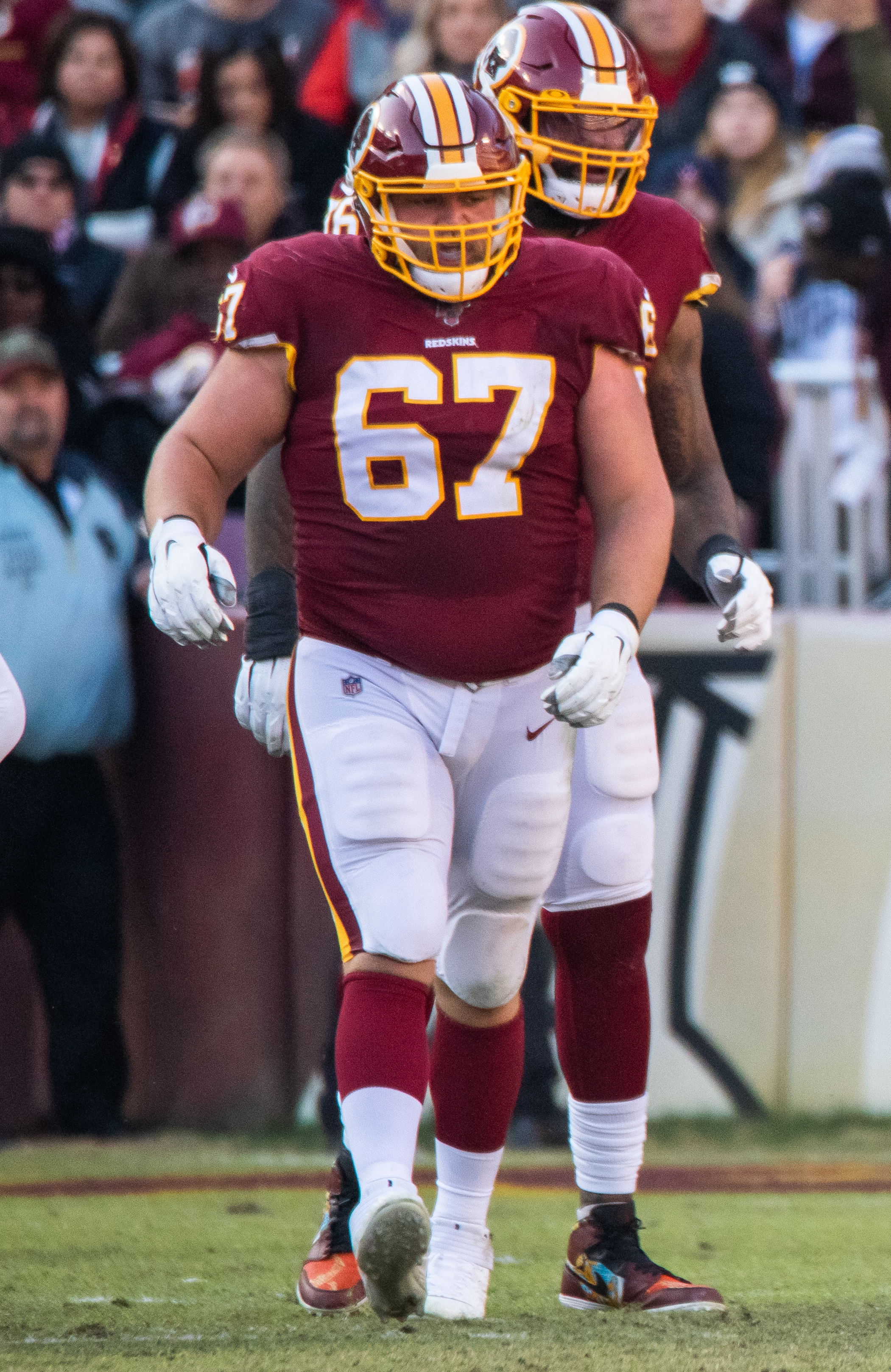 Wes Martin of the Redskins